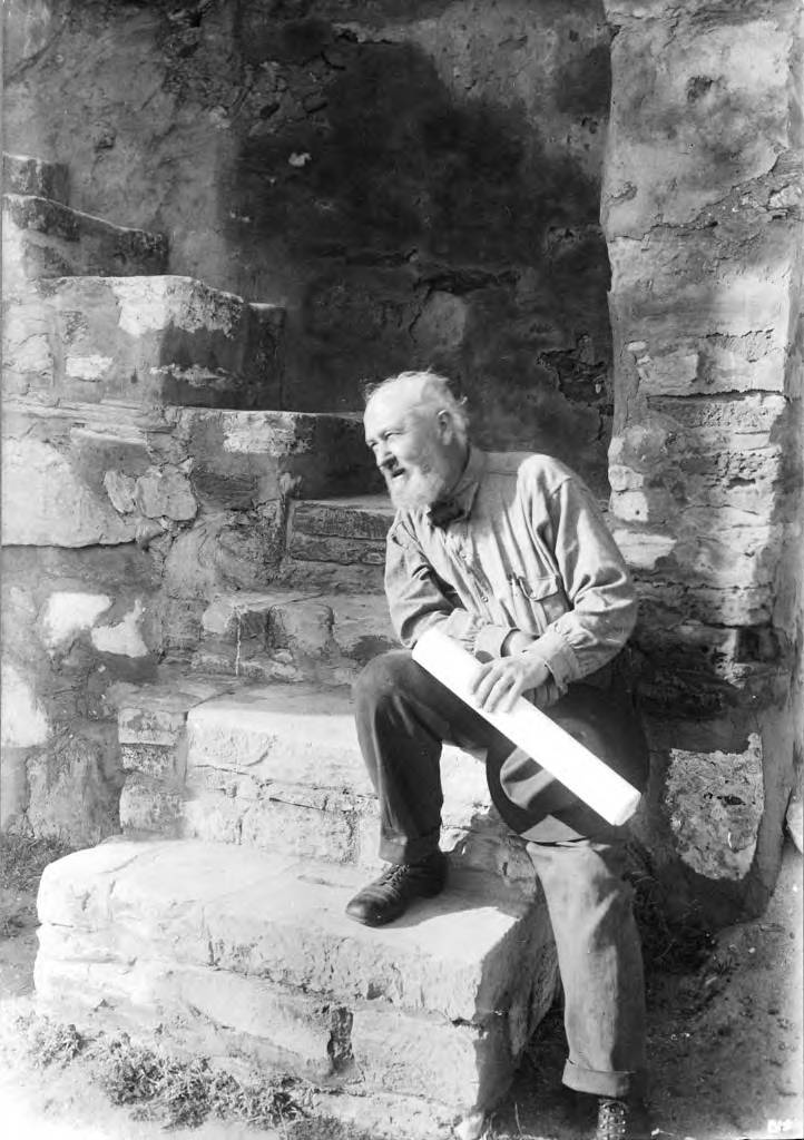 Portrait photograph of the architect Bernard Maybeck. Copyright established from stated date of 25 Nov 1919 and Slevin's life (1878–1945, see Slevin photograph collection notes).